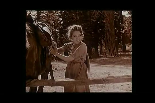 Mary Pickford in Heart o' the Hills (1919), a film by Sidney Franklin.